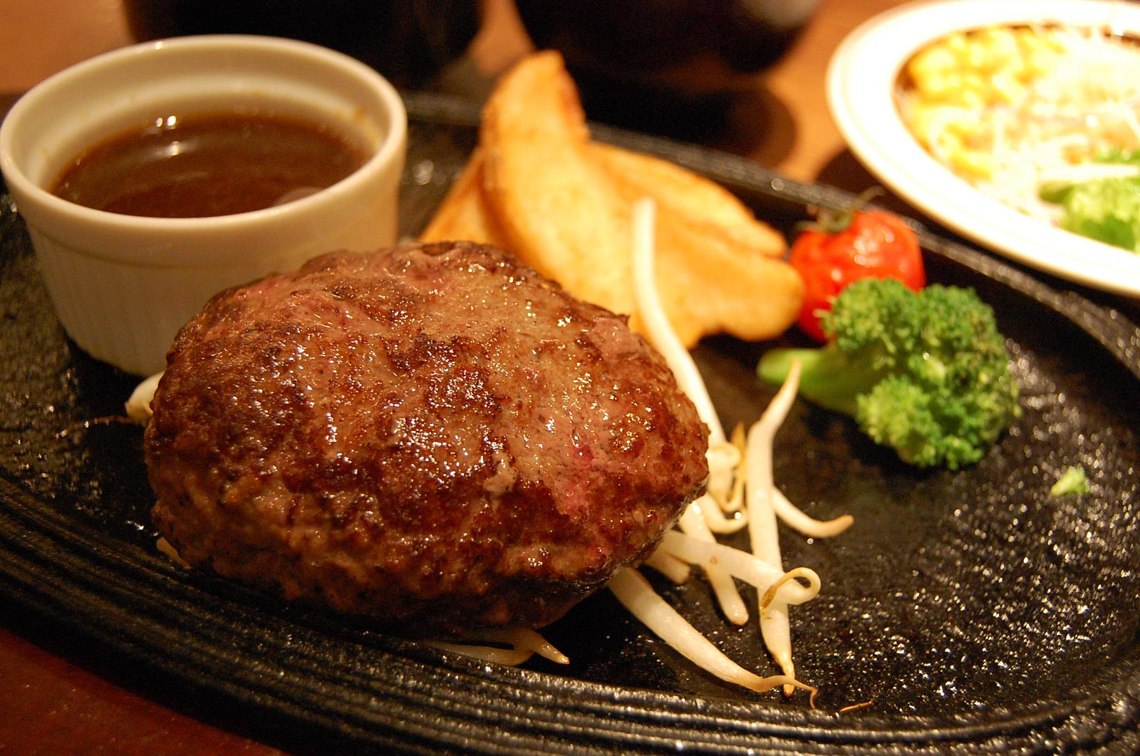 meat yazawa lunch hamburg (Salisbury steak)